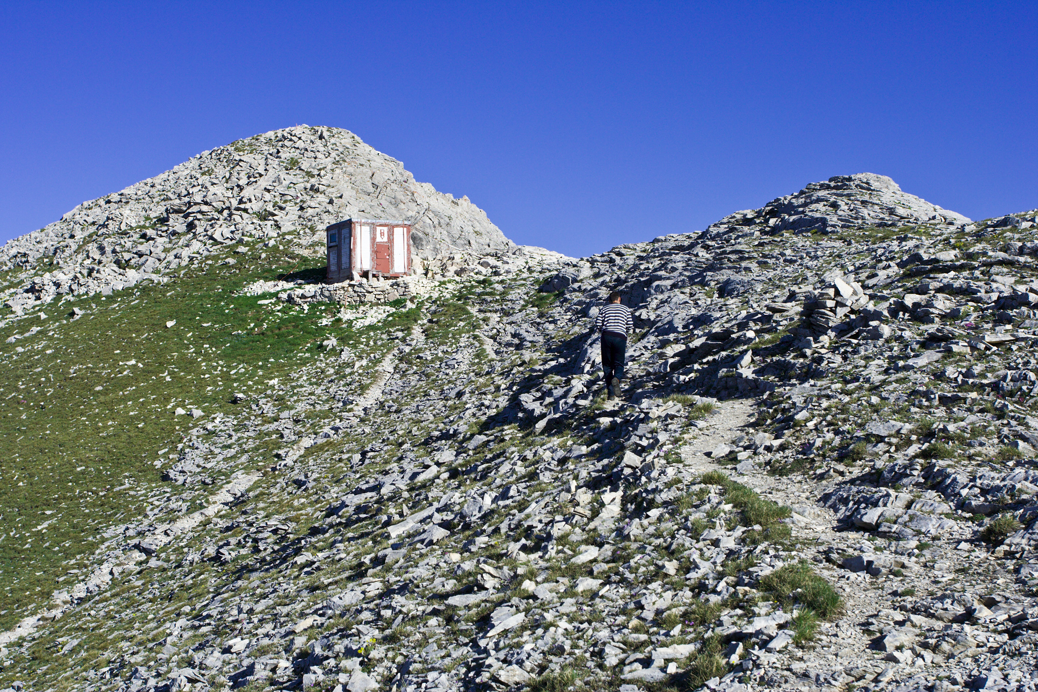 Koncheto alpine shelter, Pirin mountain, Bulgaria